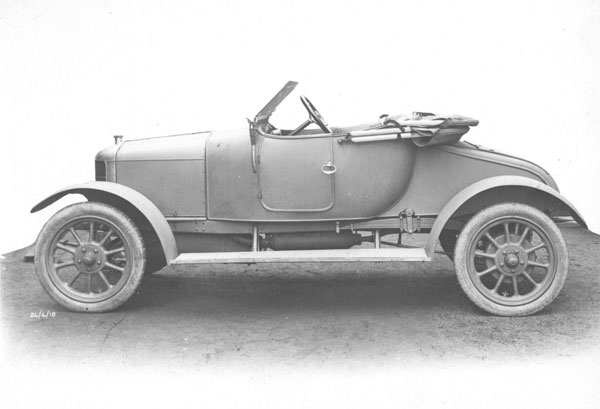 Prototype Clyno Car 1916-17